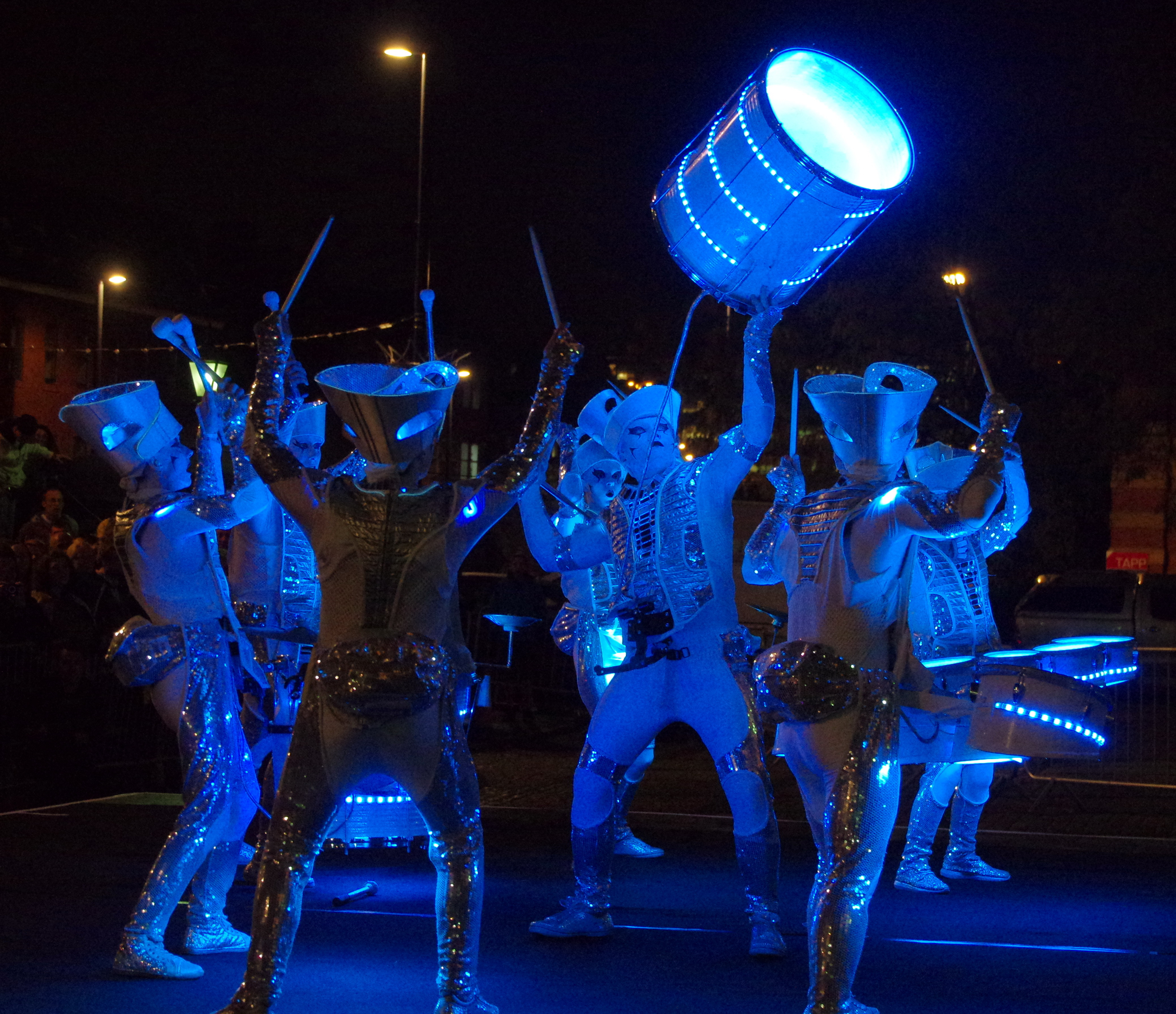 7.10.16 Light Night Leeds